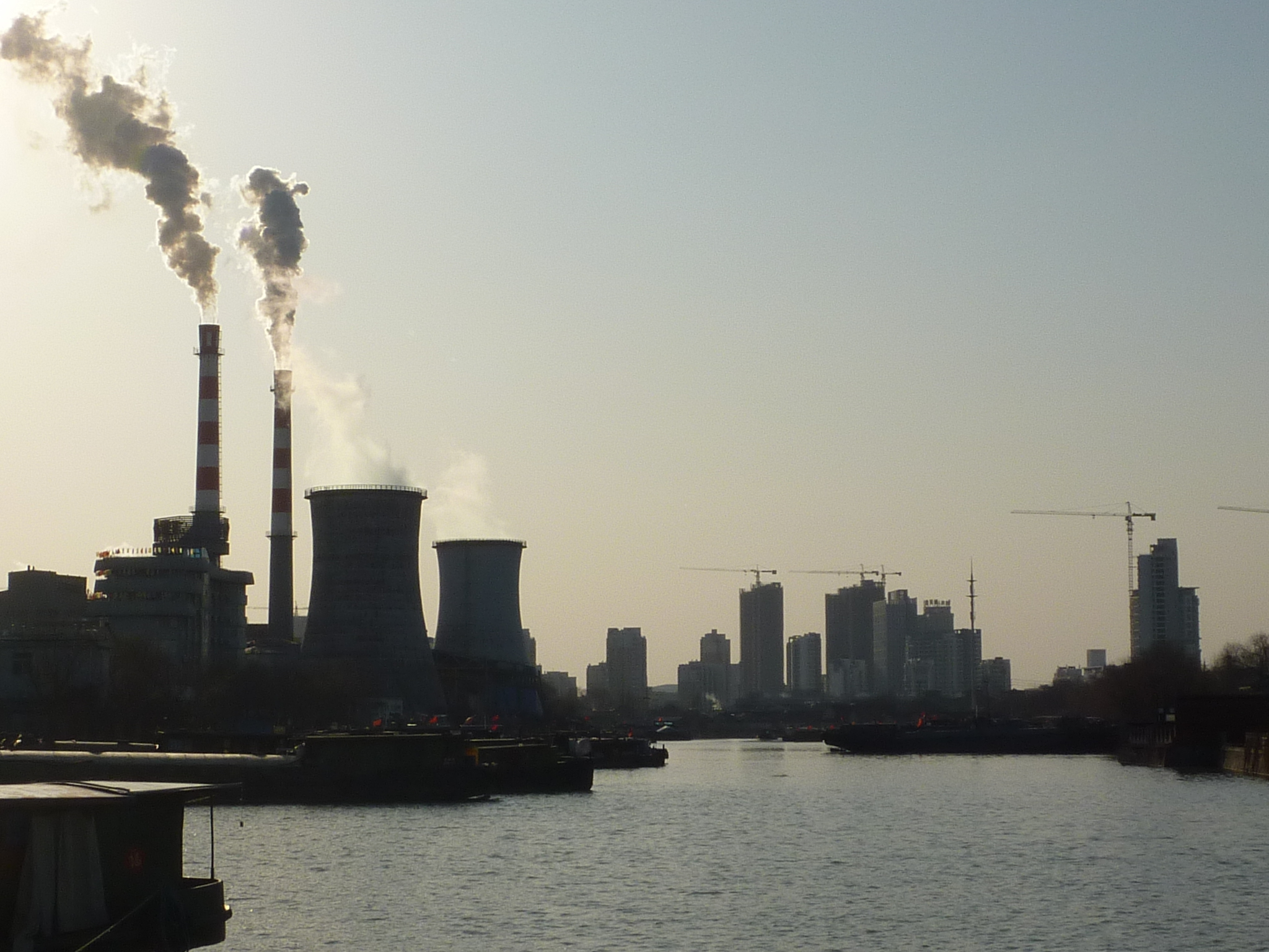 An industrial area, with a power plant, on the Old Grand Canal of China south of Yangzhou's downtown. Seen from the waterfront near Wenfeng Pagoda, looking west. The high-rise buildings in the background are somewhere near Yangzhou Bus Station